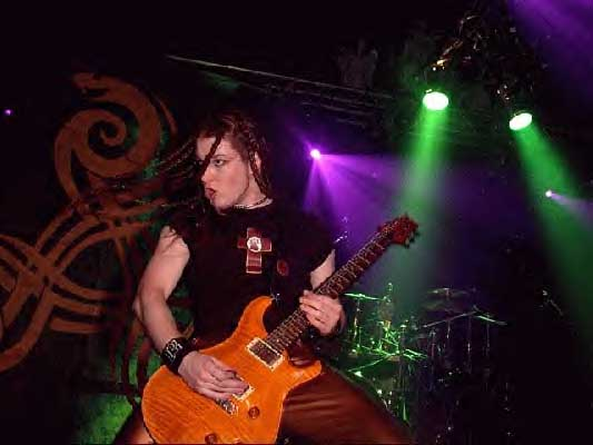 Flowing Tears live 2004